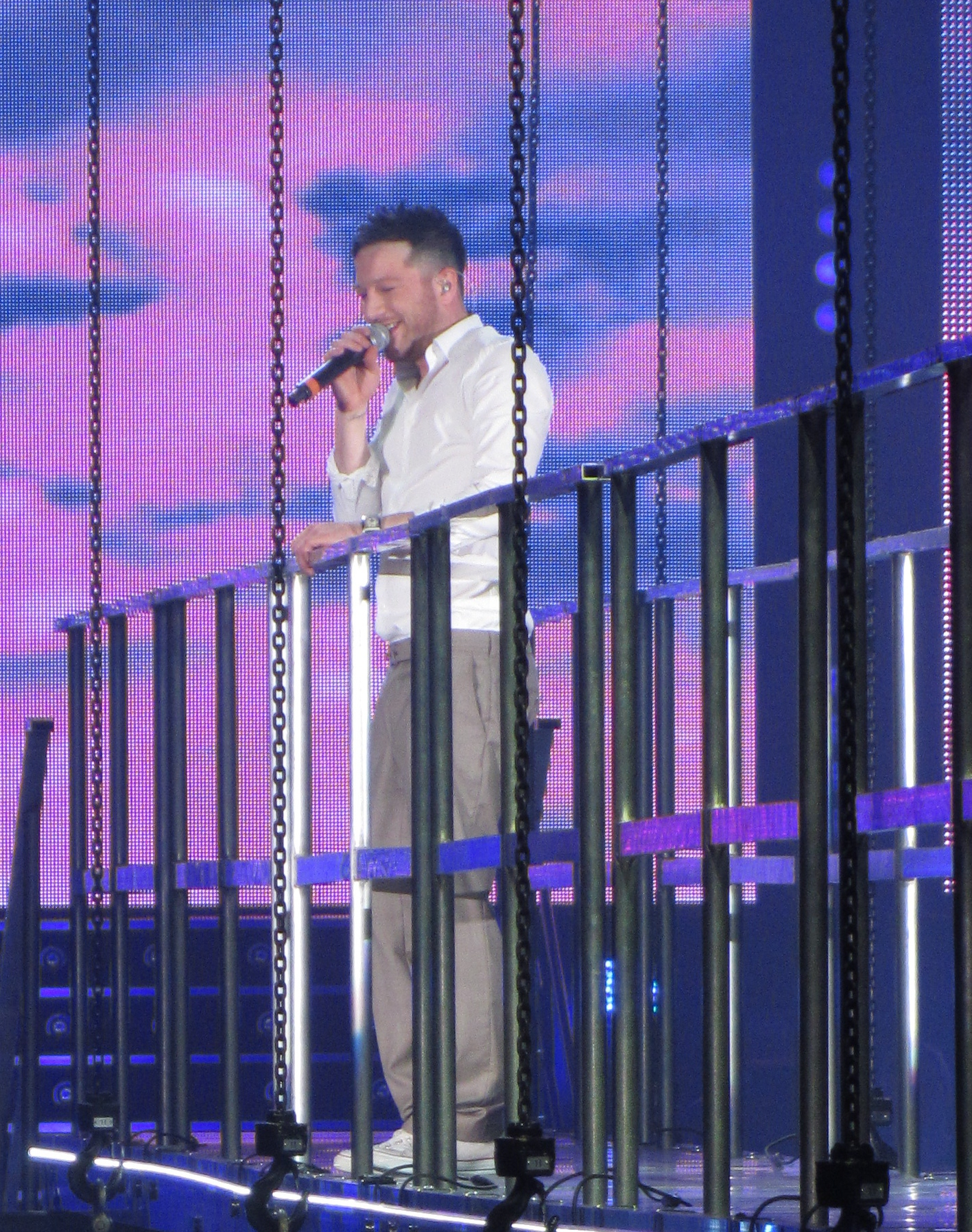 Matt Cardle, The X Factor Live, SECC, Glasgow, 1 April 2011